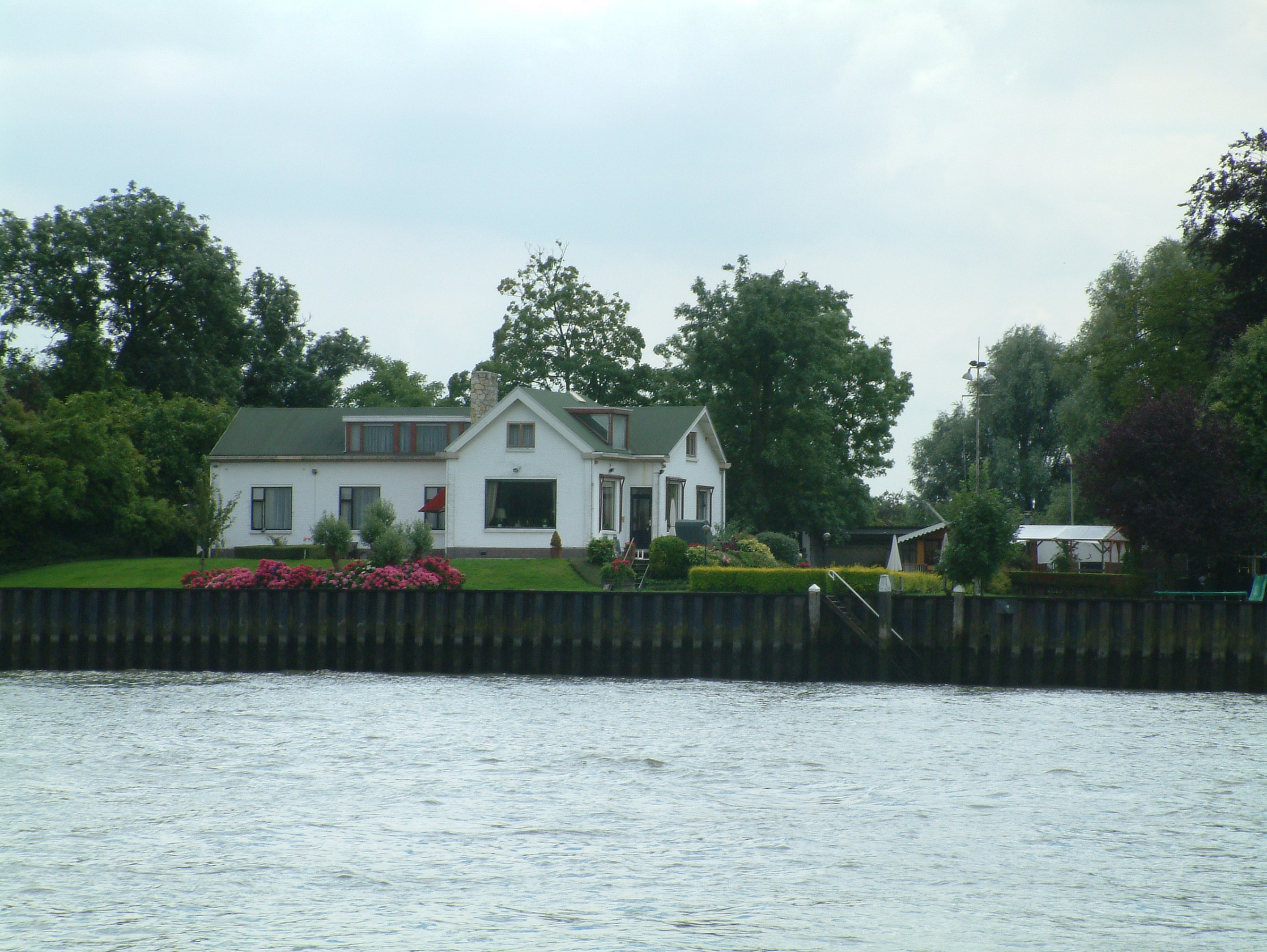 Former Transol